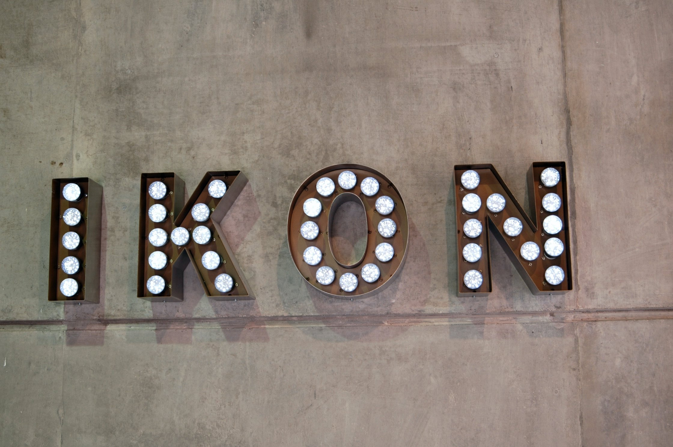 This is the logo of the IKON Gallery in the Brindleyplace development in Birmingham, England.